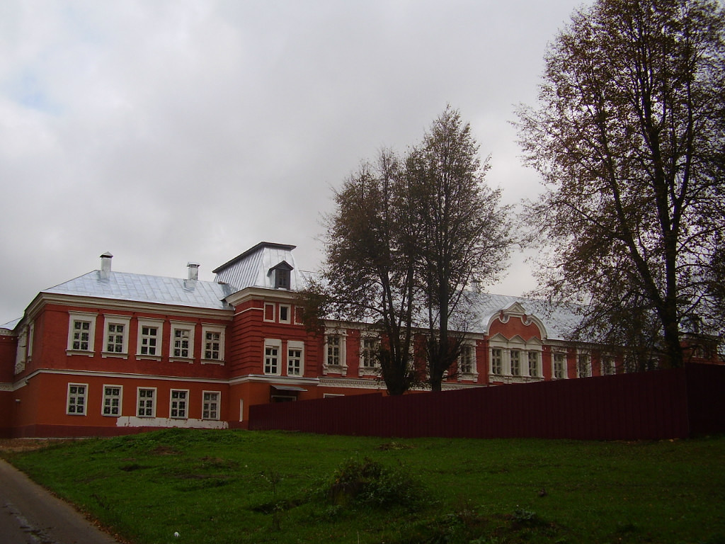 The facade of Banons Bode family Palace